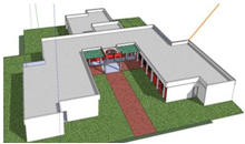 Building M before the retrofit